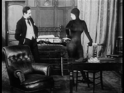 Fernand Herrmann as Moreno and Musidora as Irma Vep in Les Vampires.